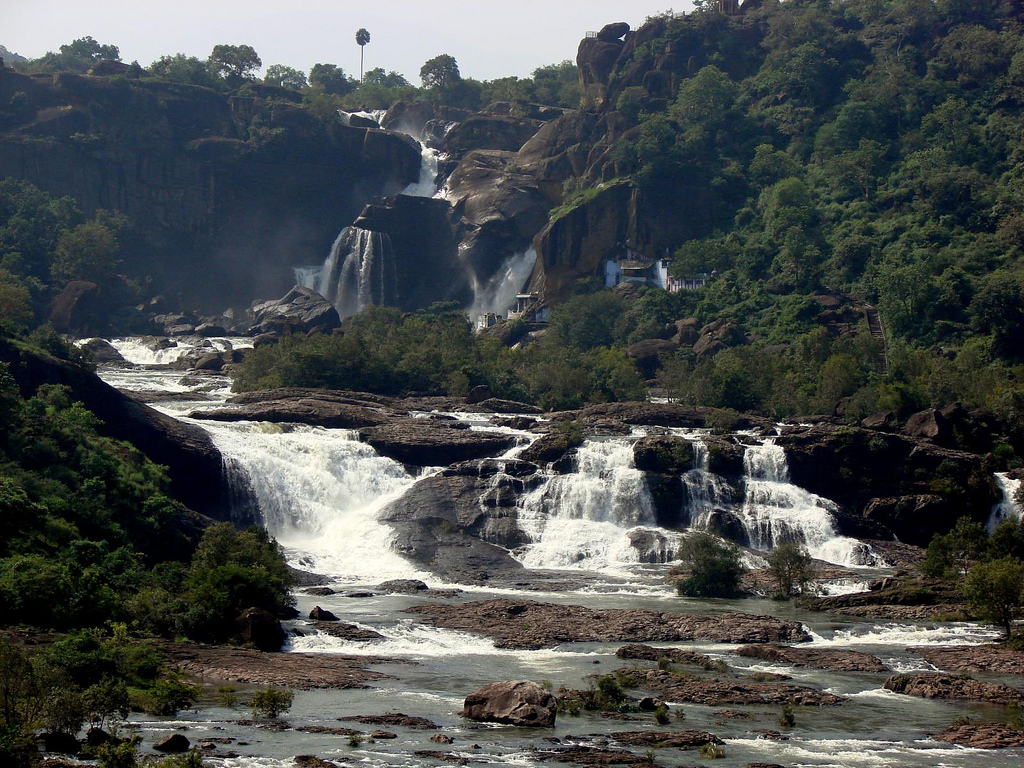 Papanasam Waterfall in Tamil Nadu